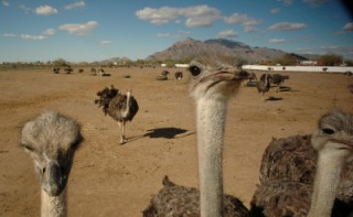 Ostrich fare between Phoenix and Tucson Photographer --- Bob Jagendorf Website --- [1] Email